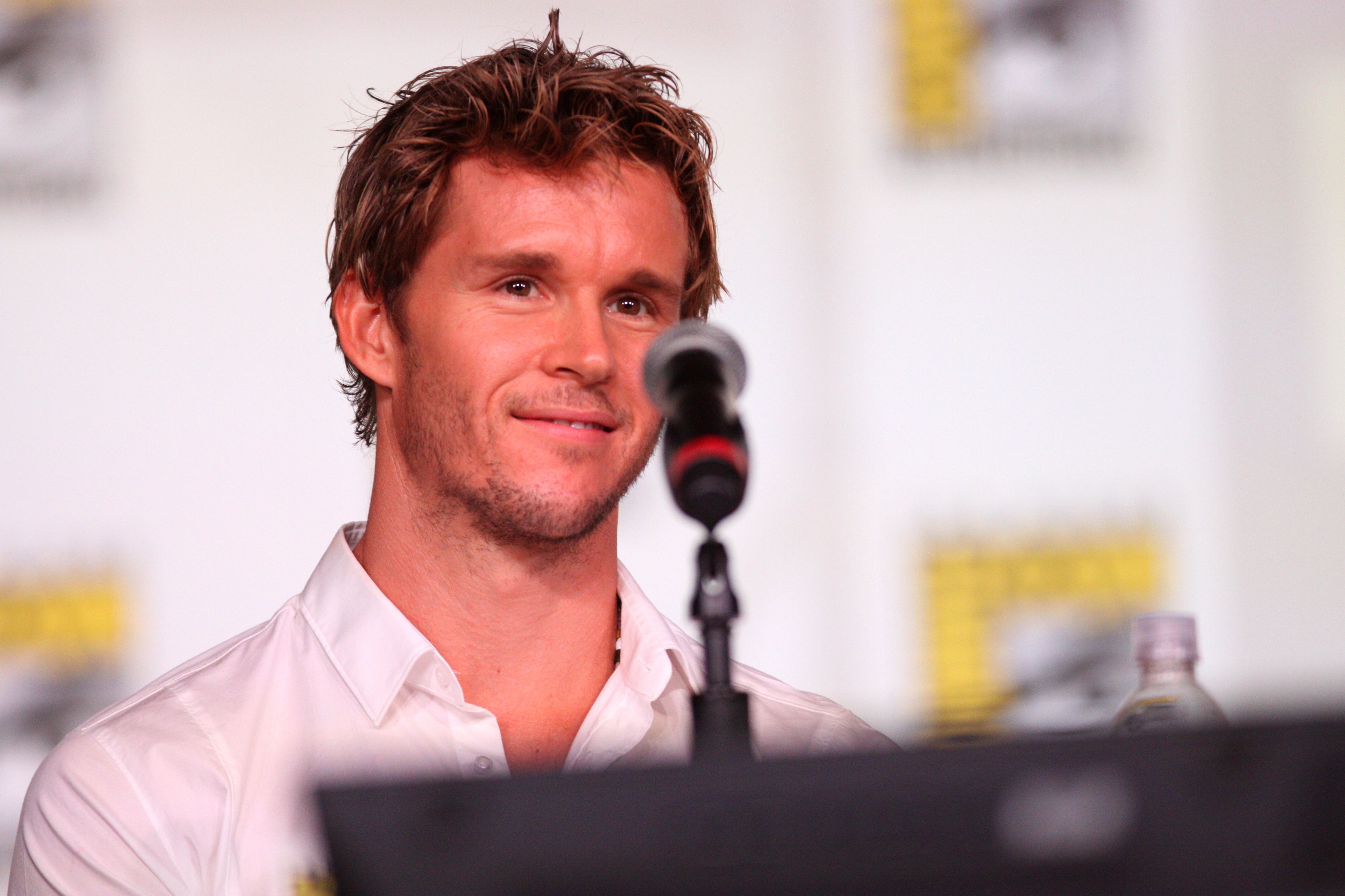 Ryan Kwanten speaking at the 2012 San Diego Comic-Con International in San Diego, California.